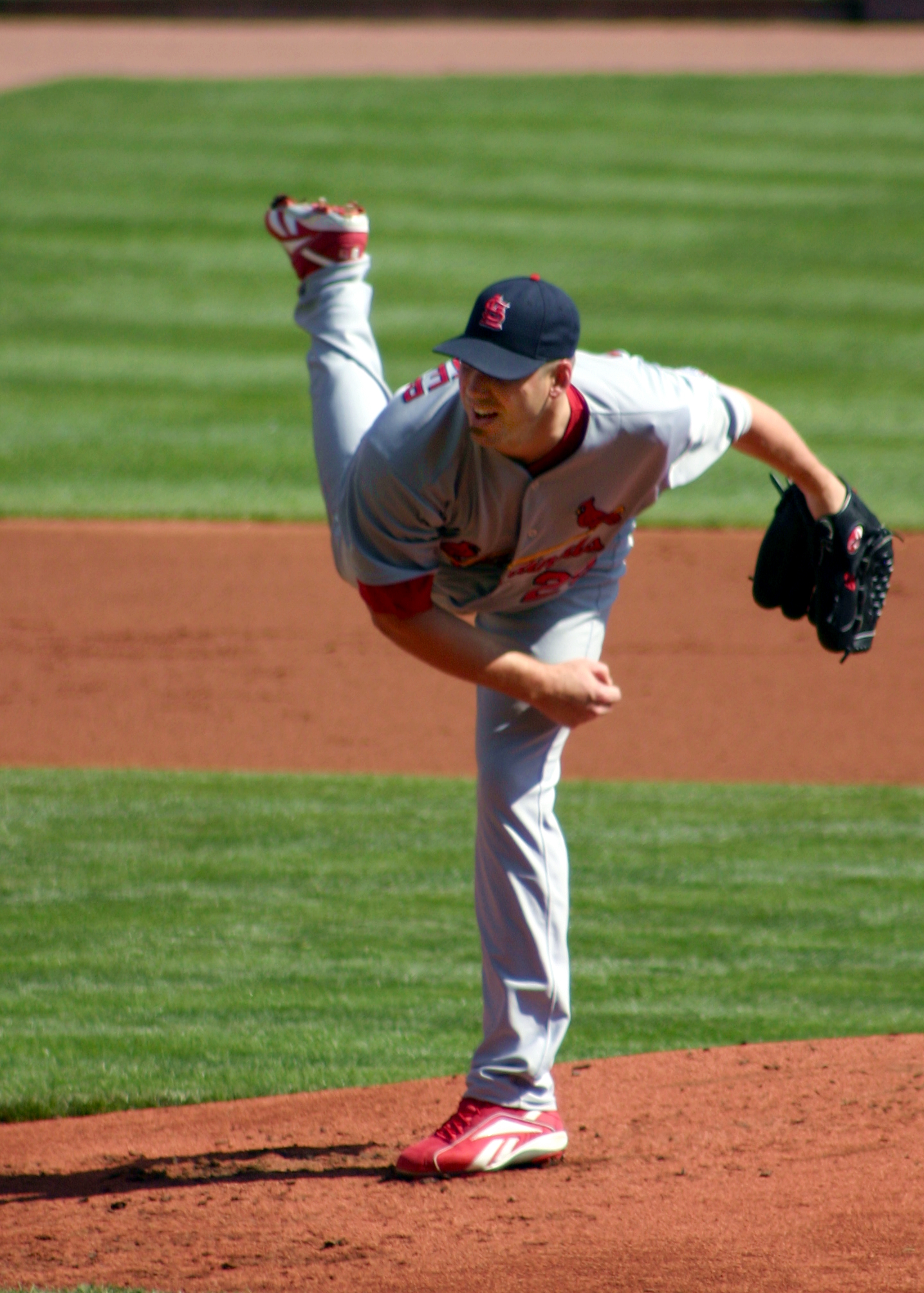 Chris Carpenter completes a pitch for the St. Louis Cardinals on October 1, 2009 at Great American Ball Park in Cincinnati. Carpenter started the game, won by the Cardinals, 13-0, and allowed no runs and three hits in five innings to improve his record to 17-4. He also hit his first career home run, a second inning grand slam, and a double to drive in six runs.